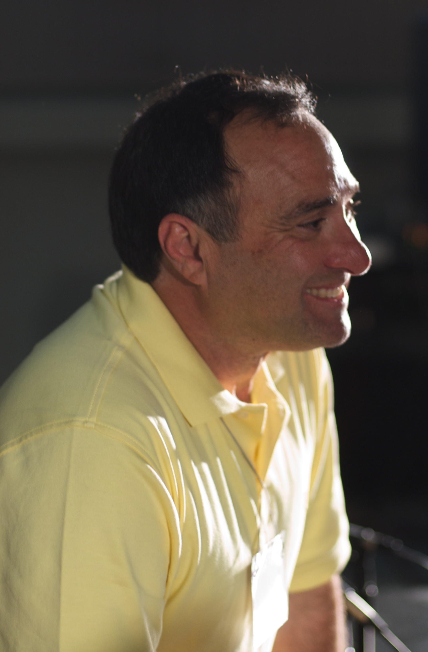 Larry Canter, at the "Heroes of Usenet" panel at ROFLcon II at MIT.